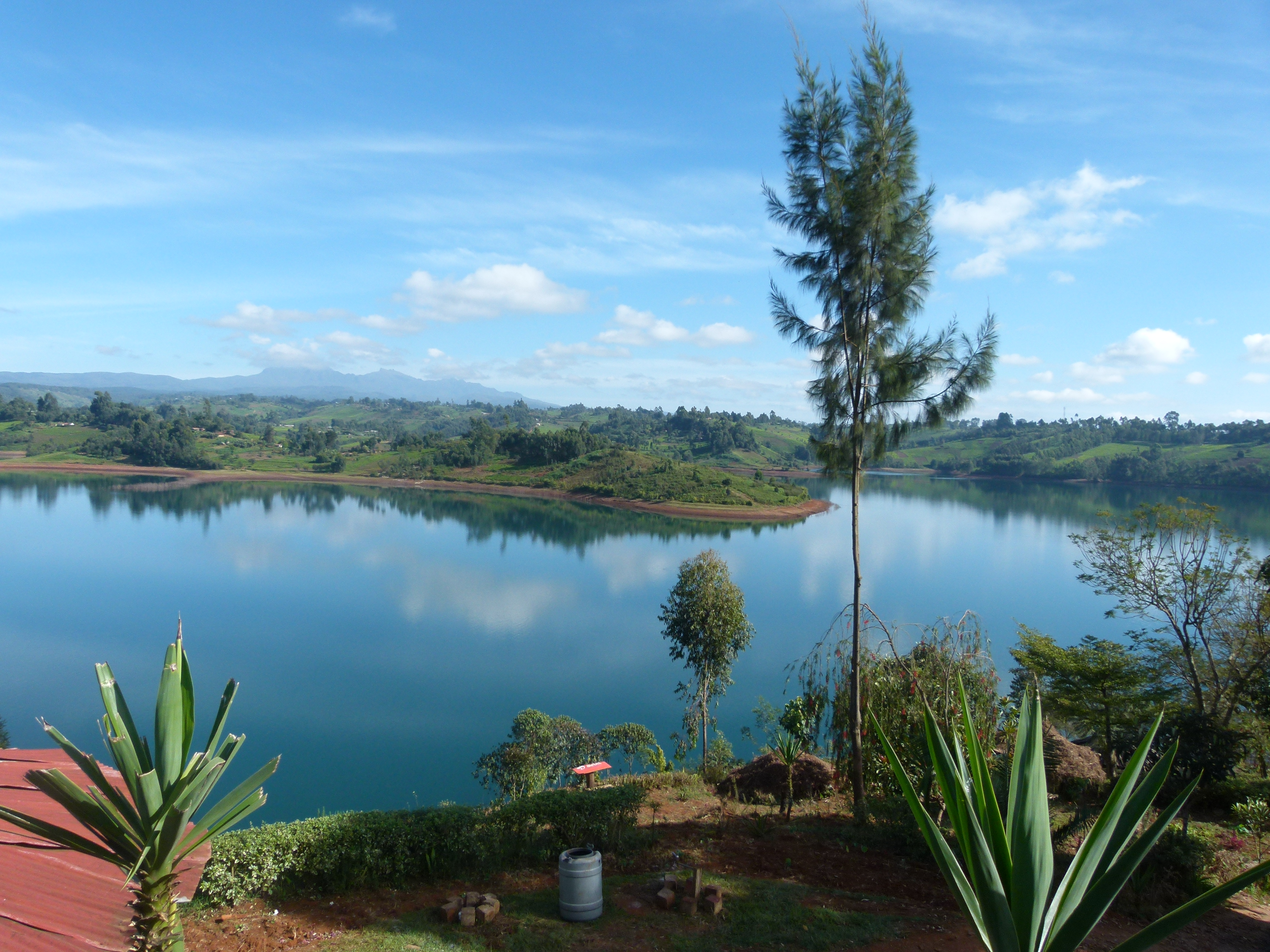 Ndakaini Dam (Thika Dam) lies about 80km north of Nairobi on the slopes of the Aberdares and provides water for most of the residents of Nairobi